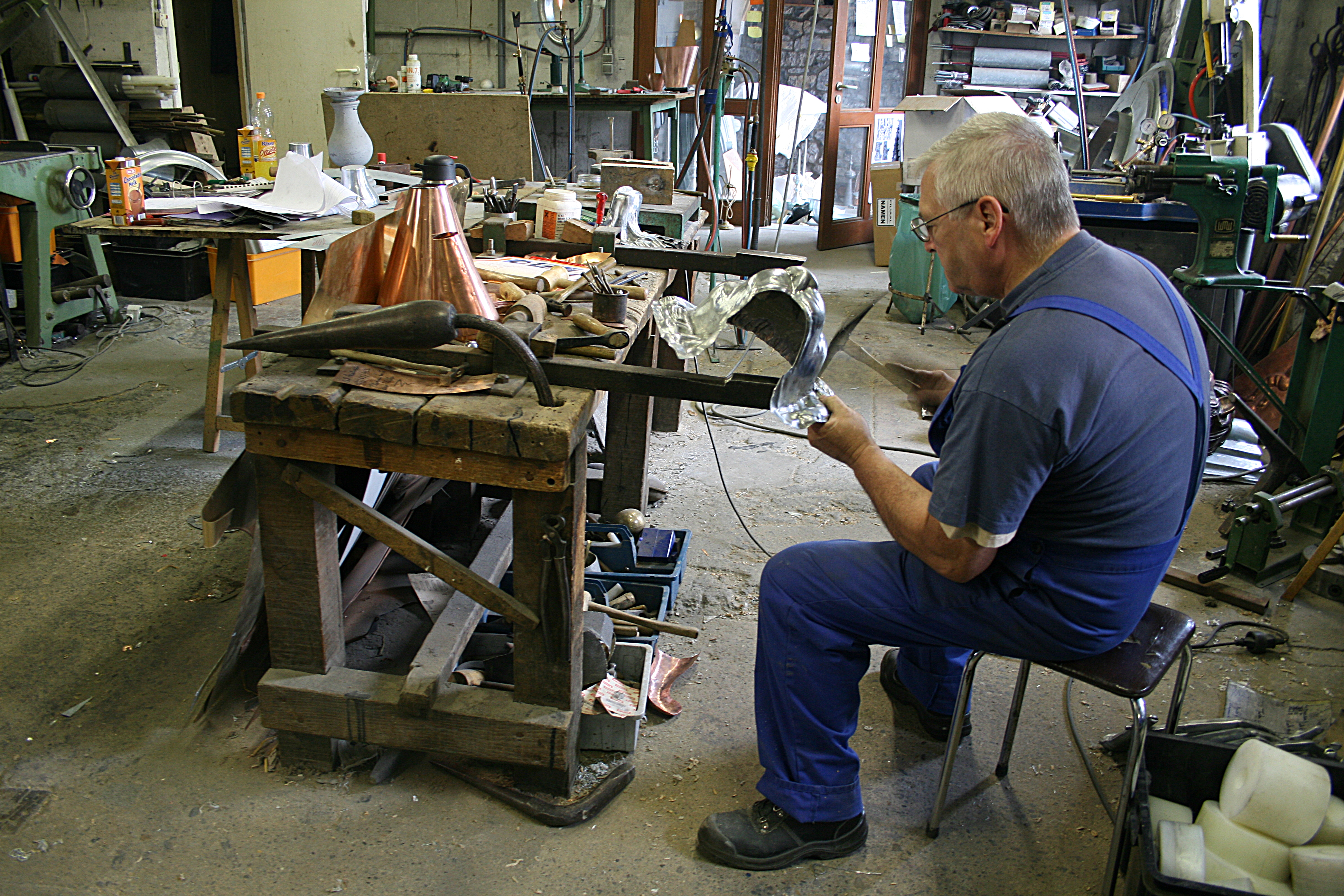 The coppersmith Clabots Guy at work in his workshop in the neighborhood of Leffe in Dinant (Belgium).